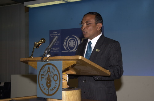 Abdul Rasheed Hussain making a statemnet at a FAO food summit in Italy, Rome, 2002.